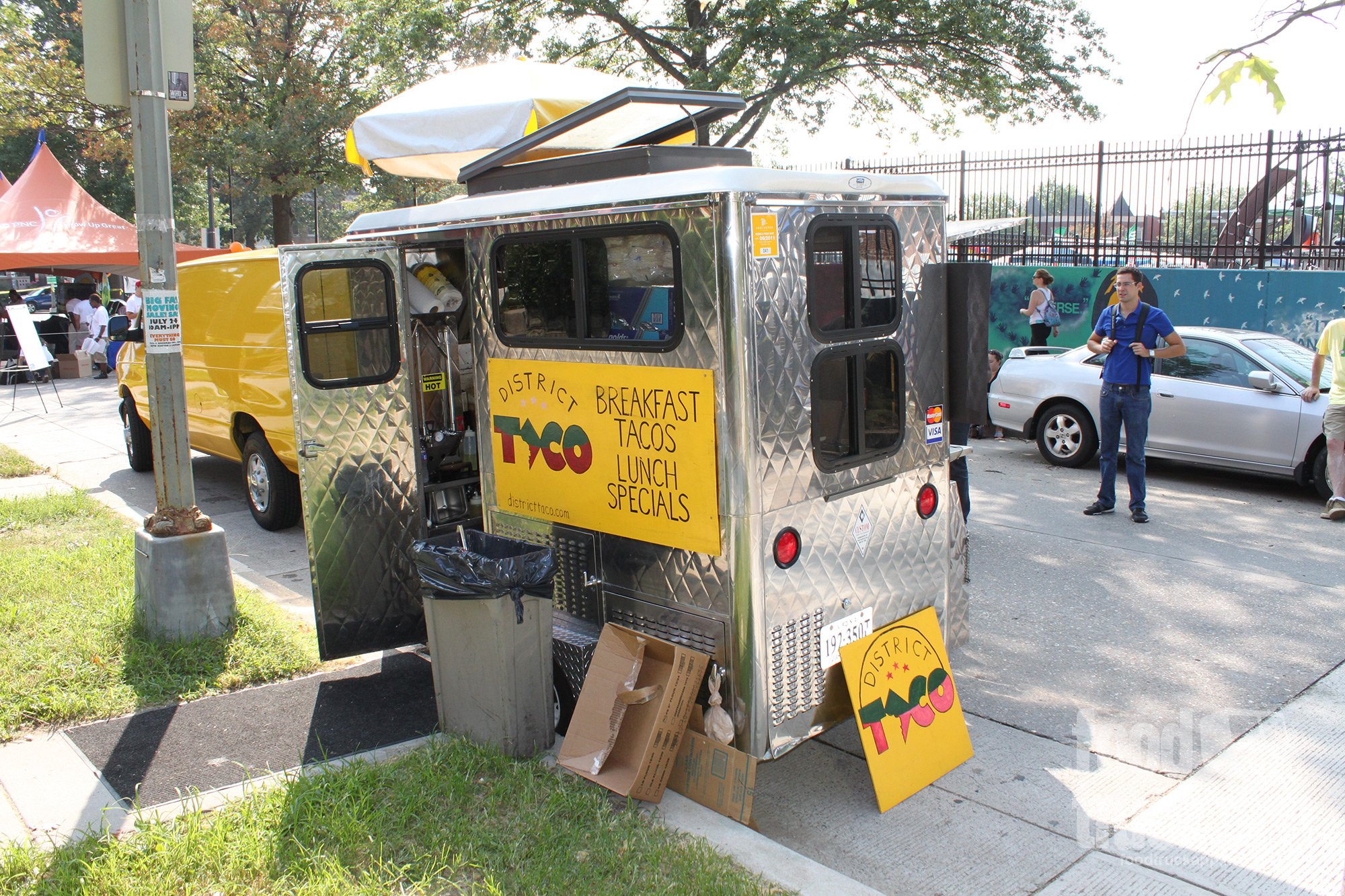 DistrictTaco: Taken by